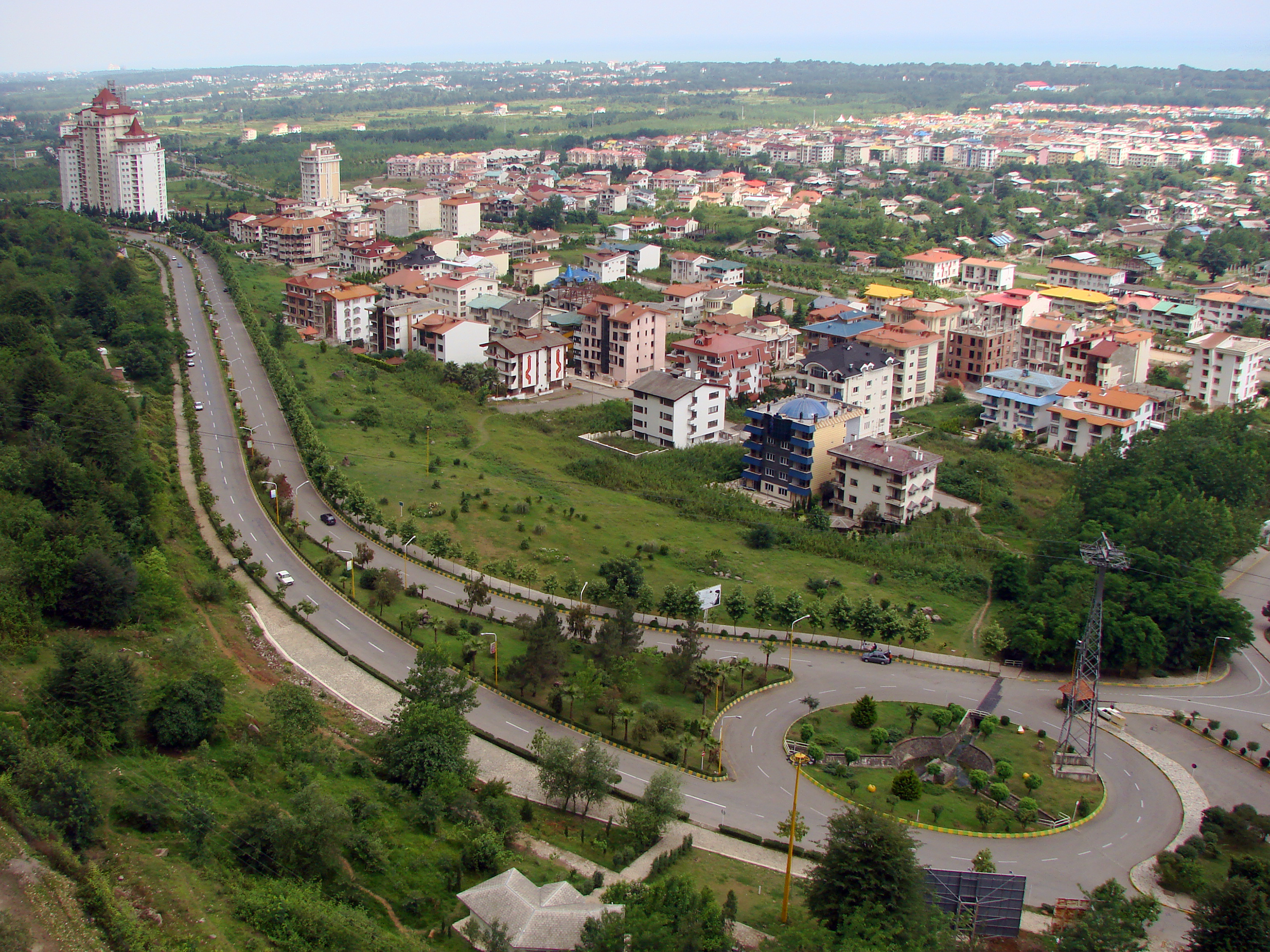 Shahrak-e Namak Abrud is a touristic village and has an aerial tramway which starts at the sea level near the shores of the Caspian Sea and ends on the top of the Alborz heights crossing dense forest area of northern Iran. There are numerous villa cities around it which form a vacation region for the people of Tehran.